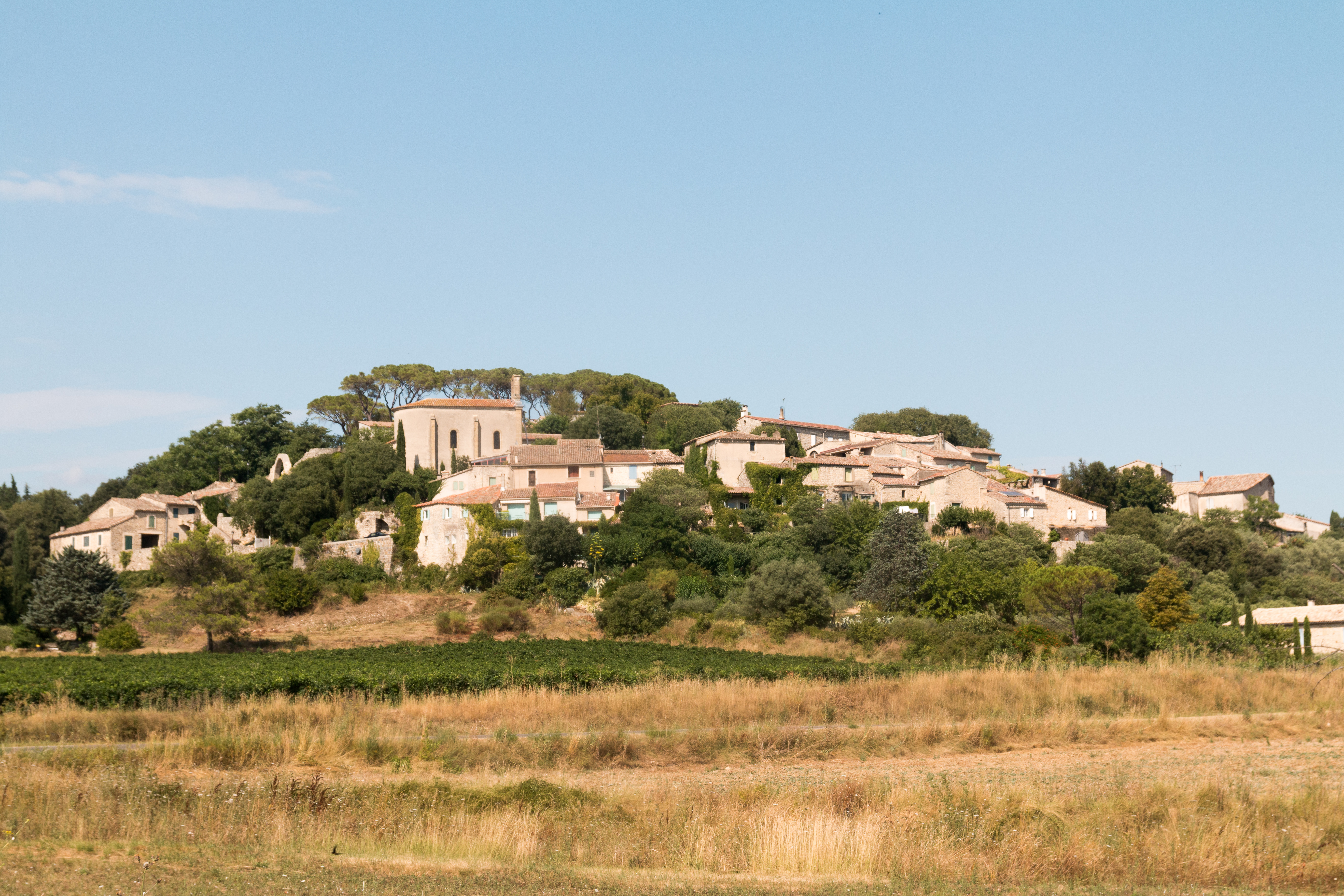 The village of Sérignac perched on it's hill.